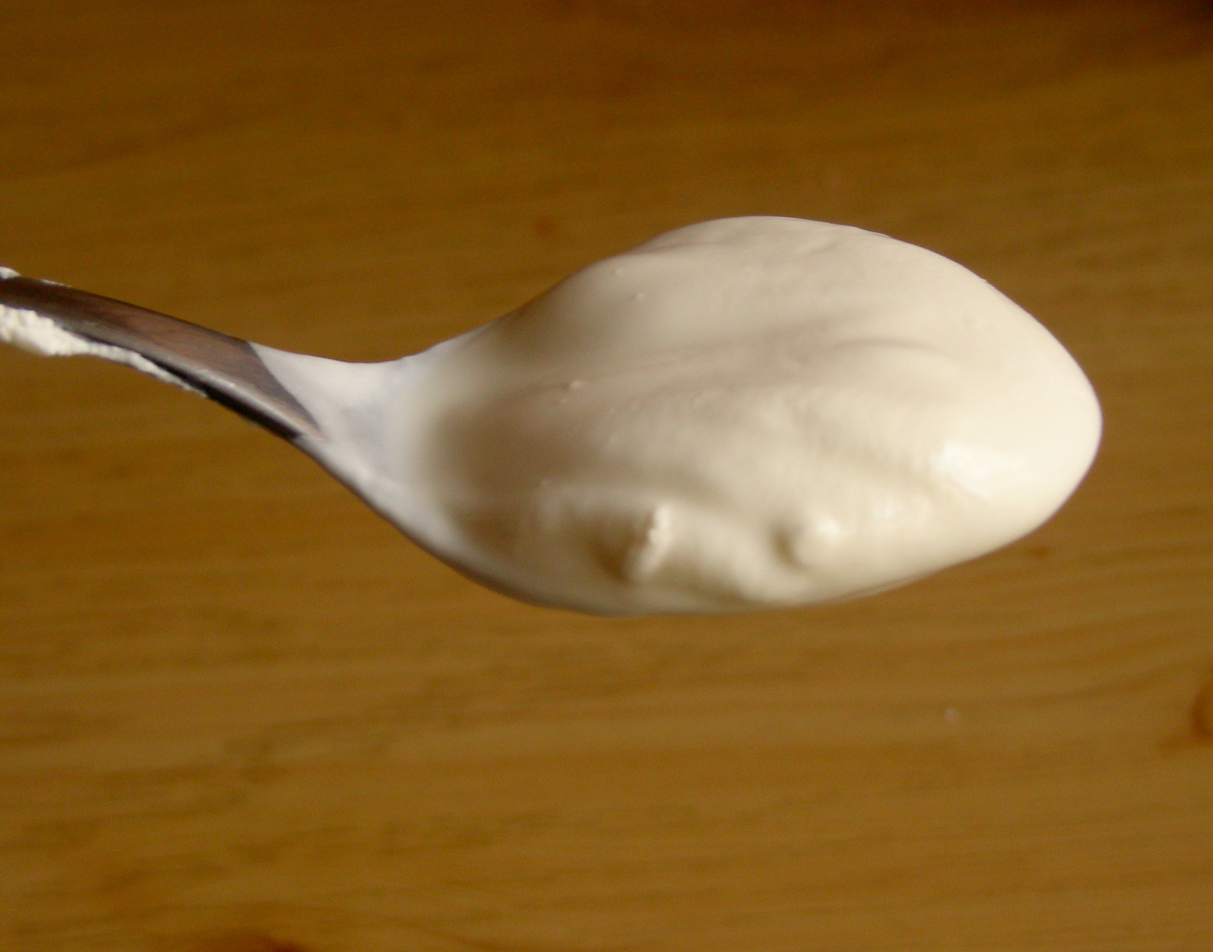 Tablespoon cream (18%)